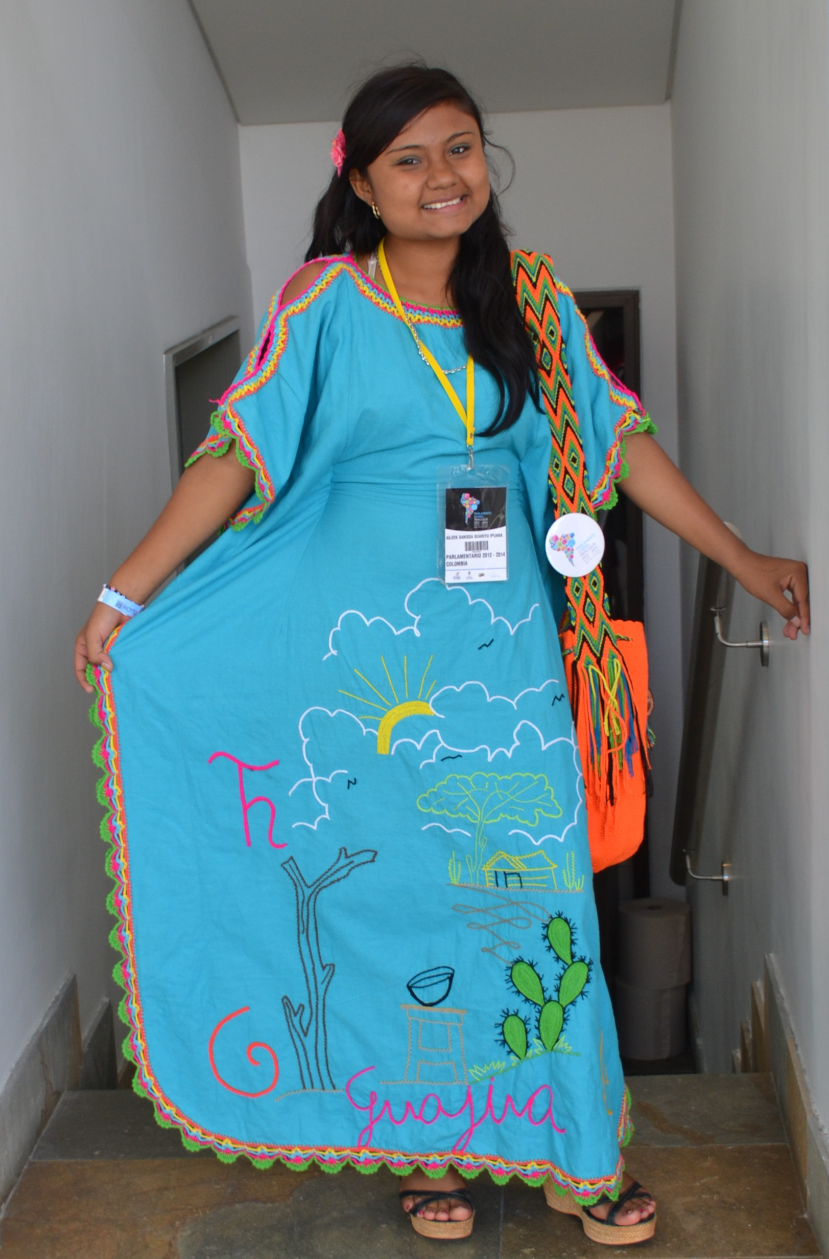 Wayuu girl wearing a wayuushein, traditional wayuu dress and a Susu, a wayuu traditional bag made by wayuu women Ladino: Manseva wayuu uzando una wayuushein, vistido tradisyonal wayuu i un Susu, un sako de mujer echa por las mujeres wayuu